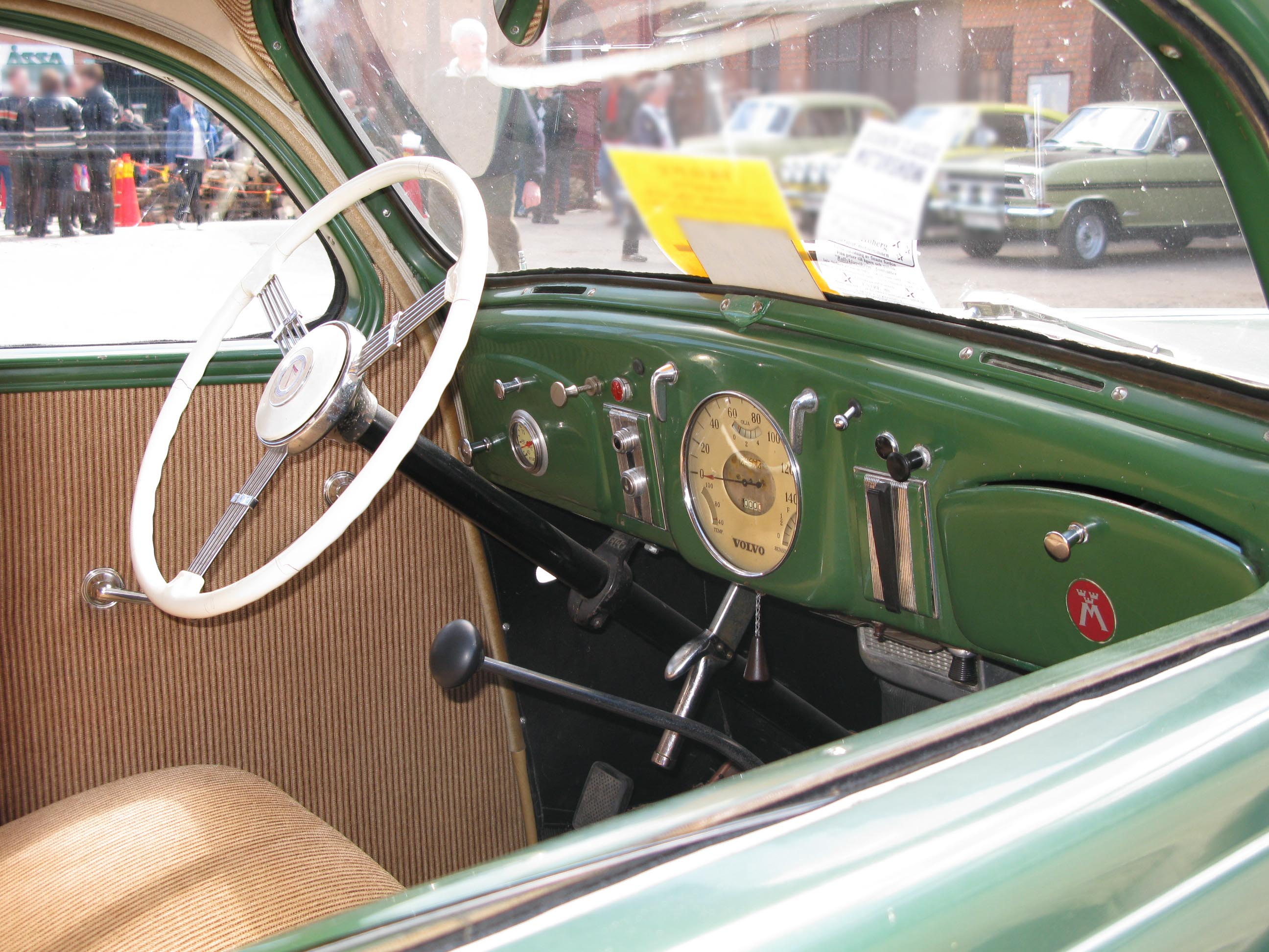 1938 Volvo PV52 dashboard.